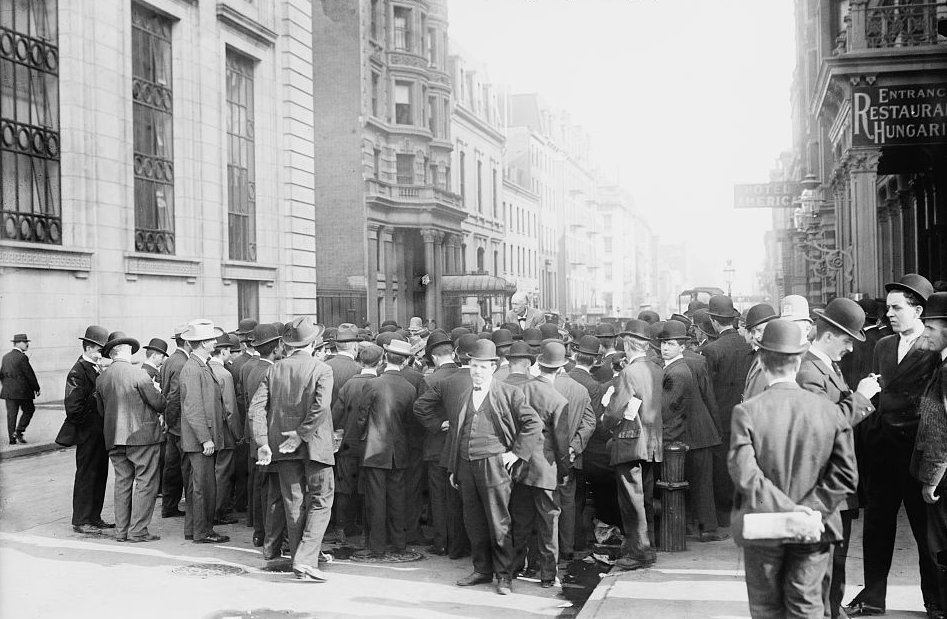 Crowd of Socialists, New York City, October 16, 1908